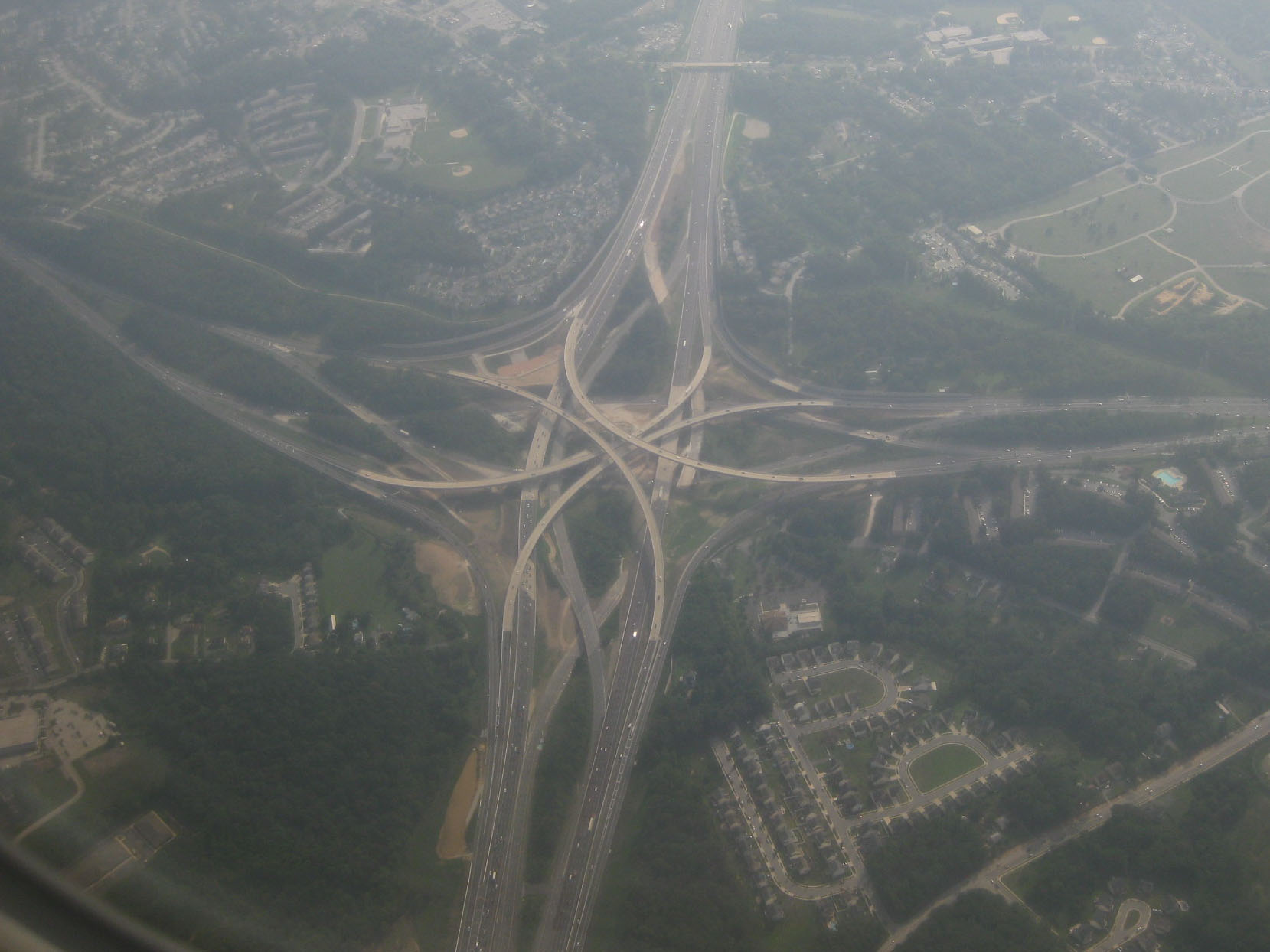 Air photo of the intersection of I-695 and I-95 in Baltimore County, Maryland on August 16, 2010.